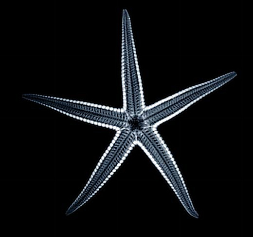 Starfish endoskleton seen on X-Ray. The highly organised endoskeleton of a starfish can be seen in this x-ray image. The lines reaching up each leg are the creature’s tubed feet, which operate through hydraulic pressure.